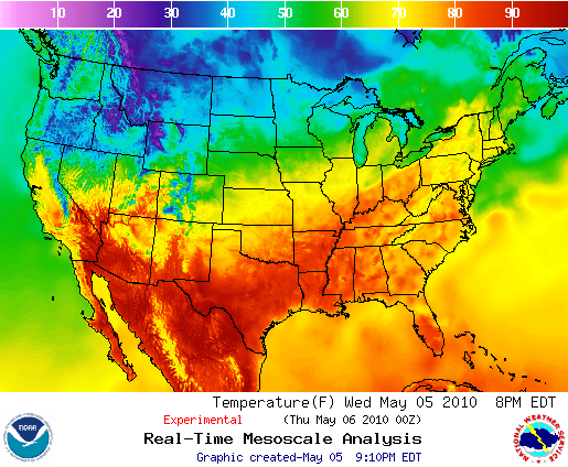 Temperatures in the USA, mesoscale analysis